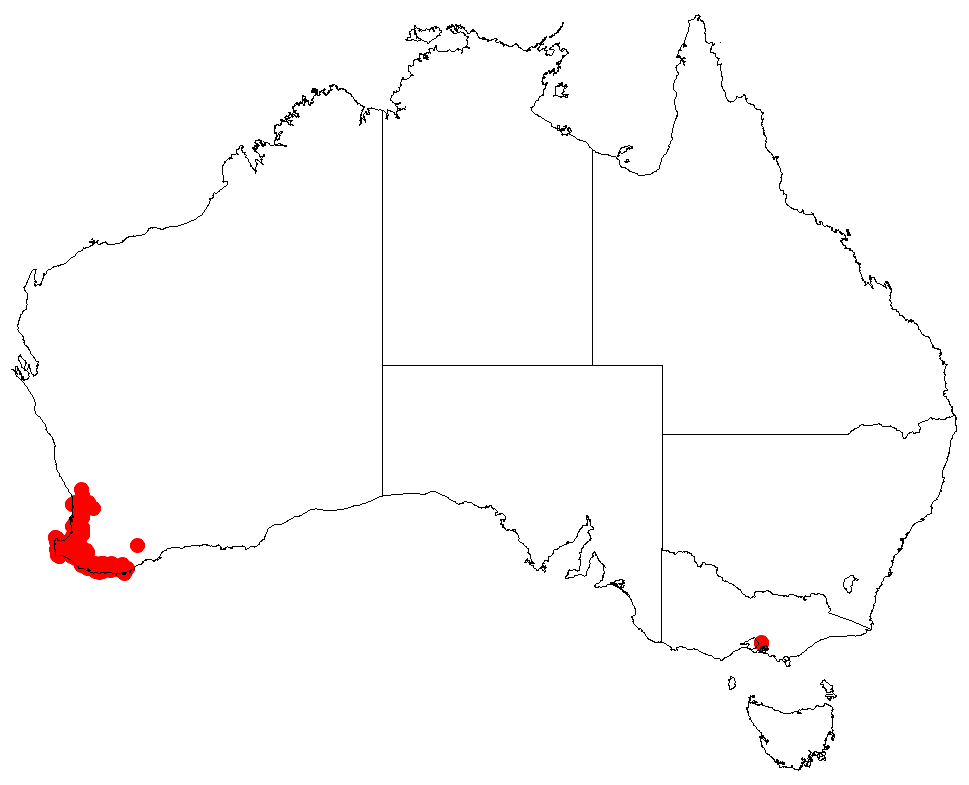 Hakea amplexicaulis Occurrence data downloaded from Australasian Virtual Herbarium on 22 November 2018 using